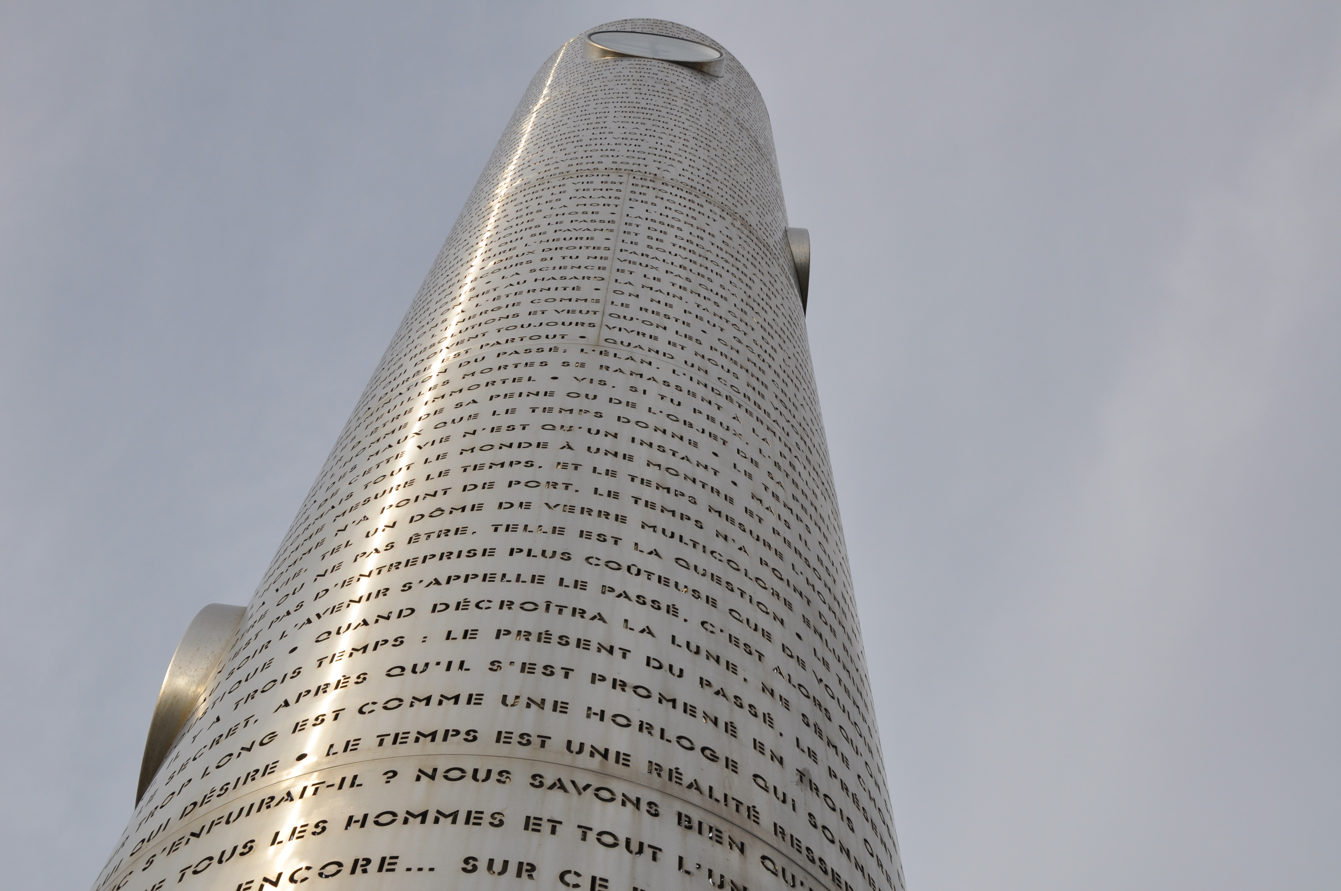 Clock tower in Le Havre (France), in front of the railway station.